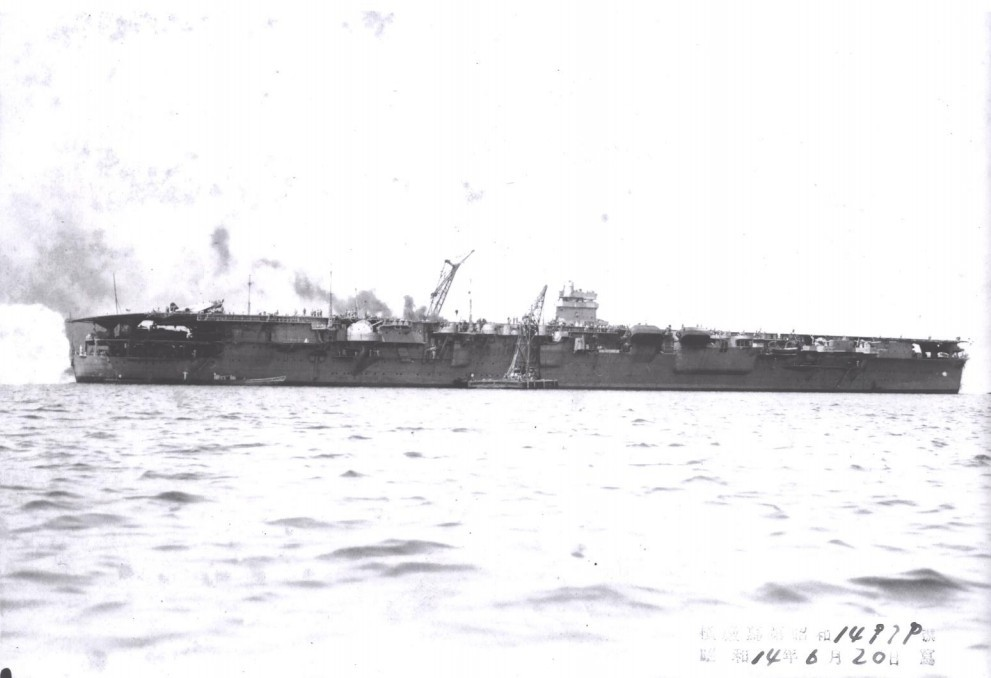 Japanese aircraft carrier Hiryu under construction. Yokosuka, 20 june 1939.